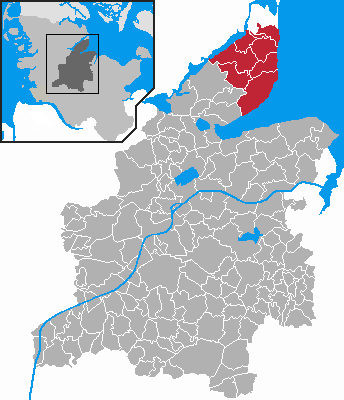 This map shows the area of the Amt (county) Schwansen in the Kreis (district) Rendsburg-Eckernförde, Schleswig-Holstein, Germany.